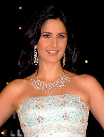 Katrina Kaif at the Nakshatra jewelry launch in 2008